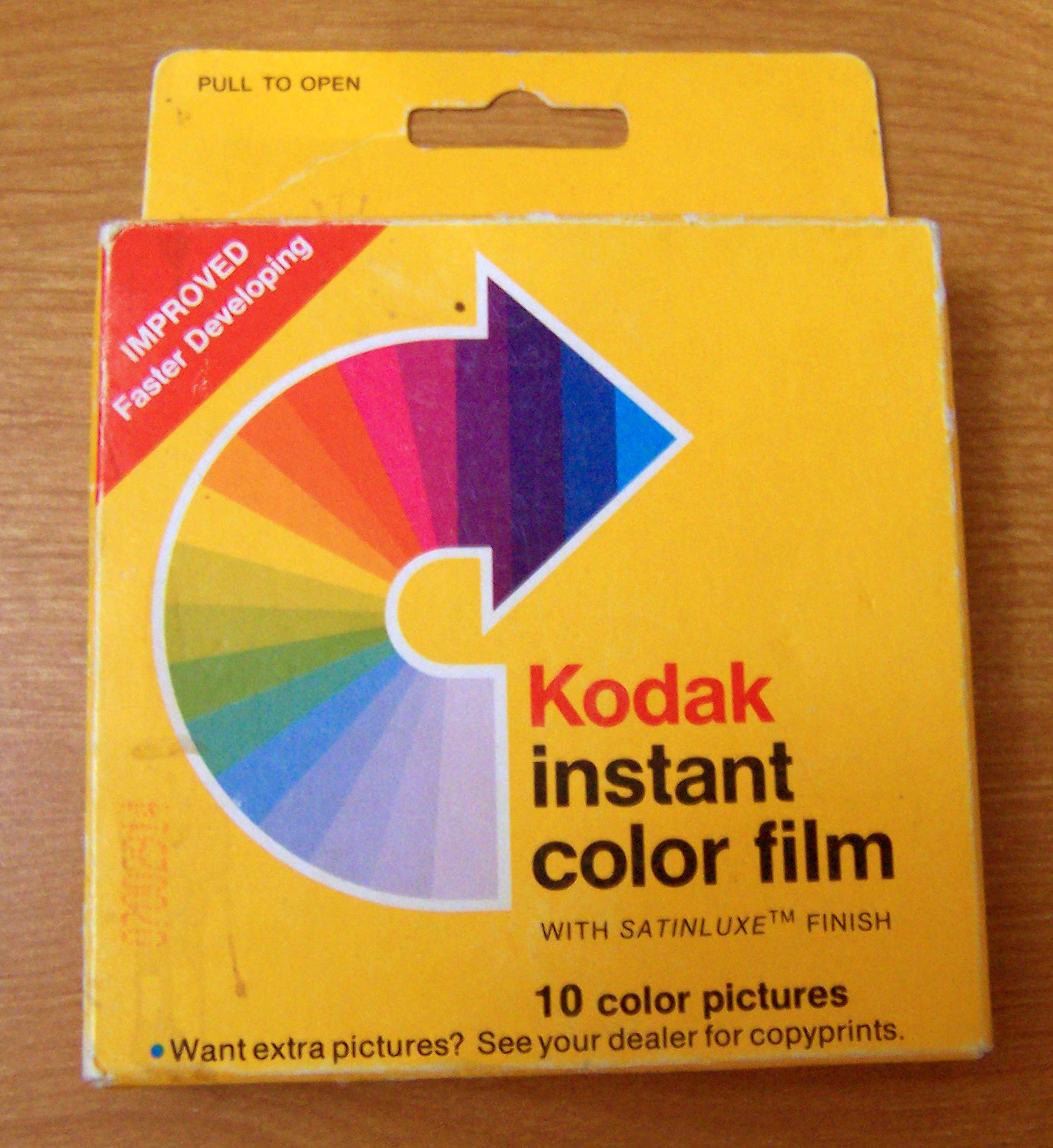 A pack of Kodak PR-10 Satinluxe instant film, still sealed in original box. The expiration date marked on the bottom is 6/1981 (June 1981). Note: The date in the metadata for 2003 is incorrect as the digital camera's clock was not set.